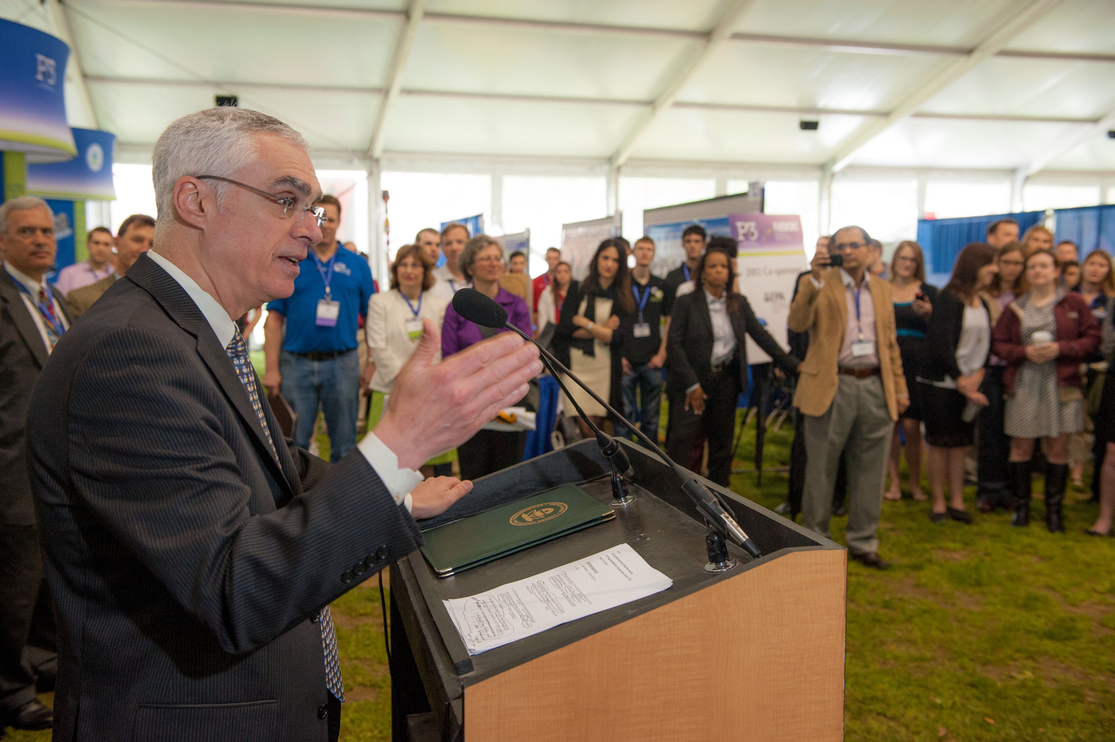 People Prosperity and the Planet: National Sustainable Design Expo on the National Mall 18-19 April 2013 U.S. EPA photo by Eric Vance